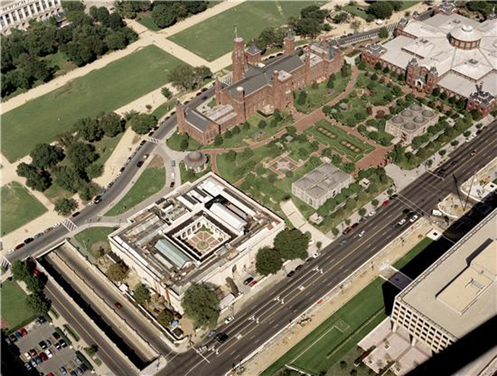 1993. Aerial view from the southwest of the Smithsonian Institution Building, Freer Gallery of Art, Arthur M. Sackler Gallery, National Museum of African Art, Arts and Industries Building and Enid A. Haupt Garden.